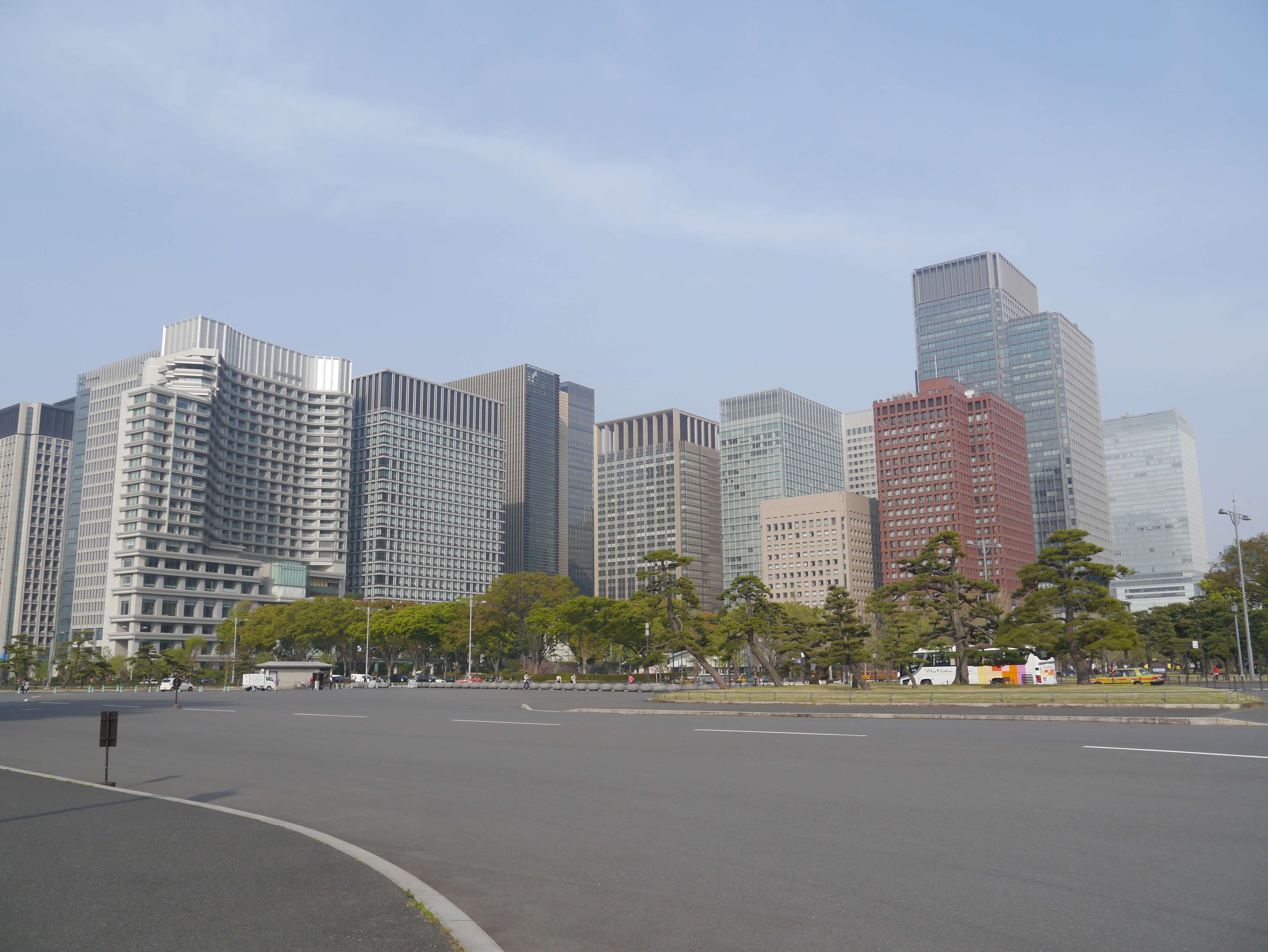 View to Marunouchi, Tokyo/Tokyo Prefecture, Japan